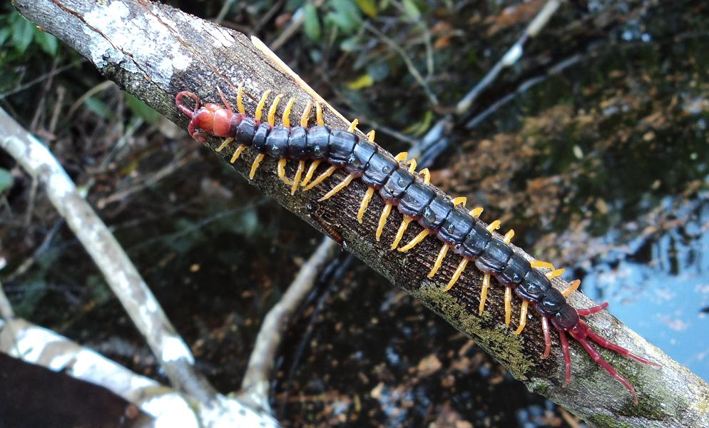 Amazon Insect